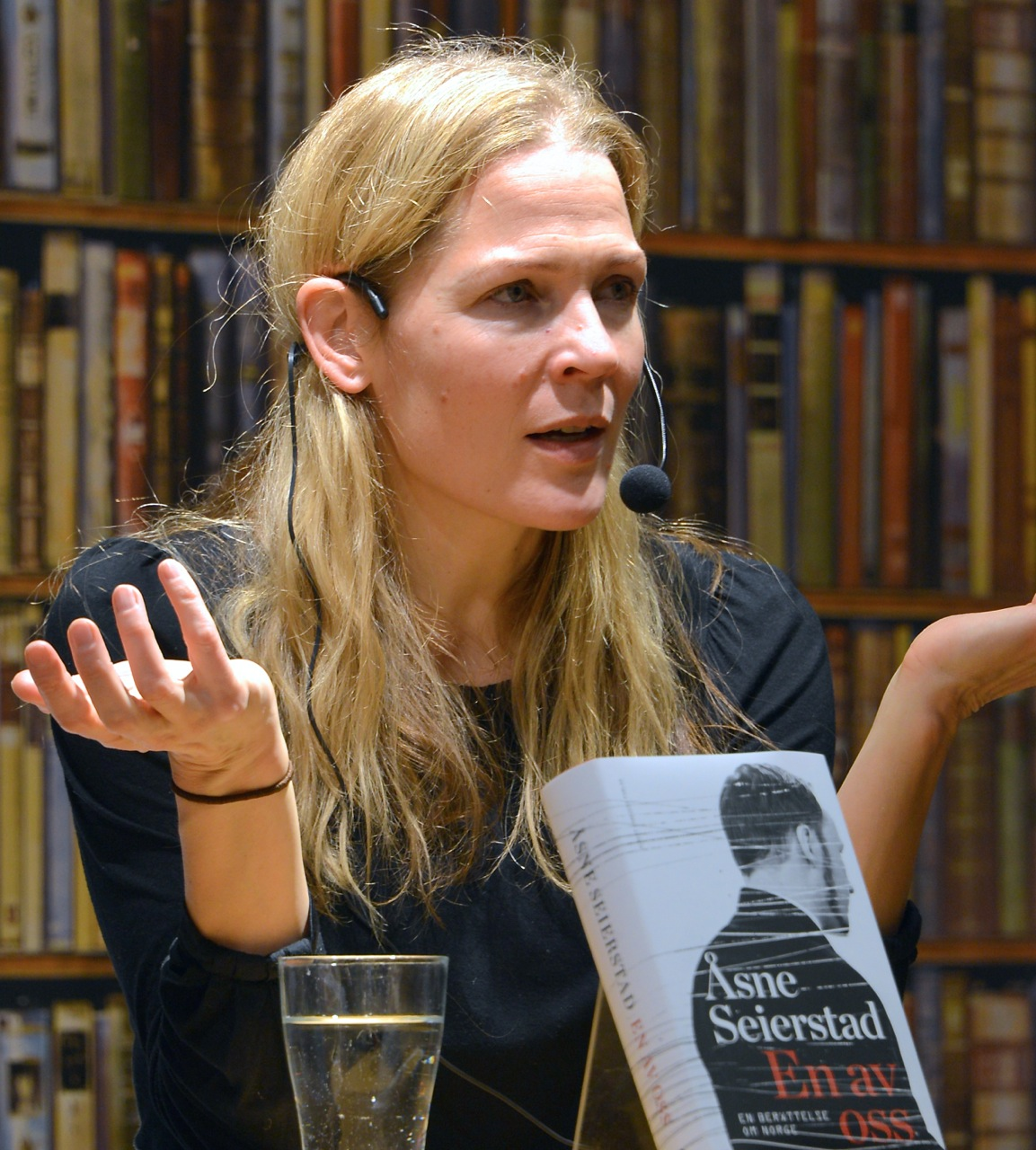 Åsne Seierstad in Stockholm December 2, 2013 and talks about her latest book, "One of Us".